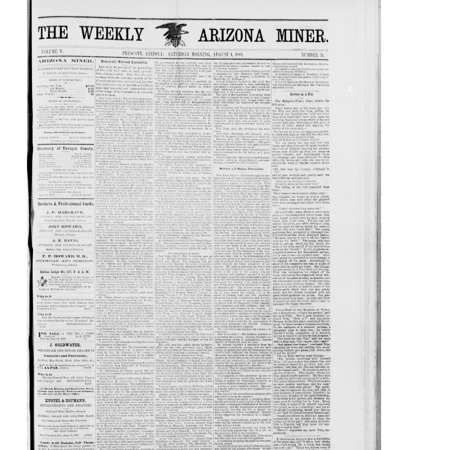 Image of the Aug 8, 1868 Arizona Miner newspaper published in Prescott, Arizona